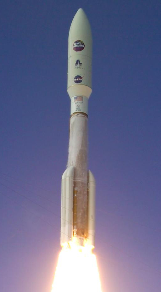 The Atlas V 551 rocket is climbing, with New Horizons, into the blue sky.